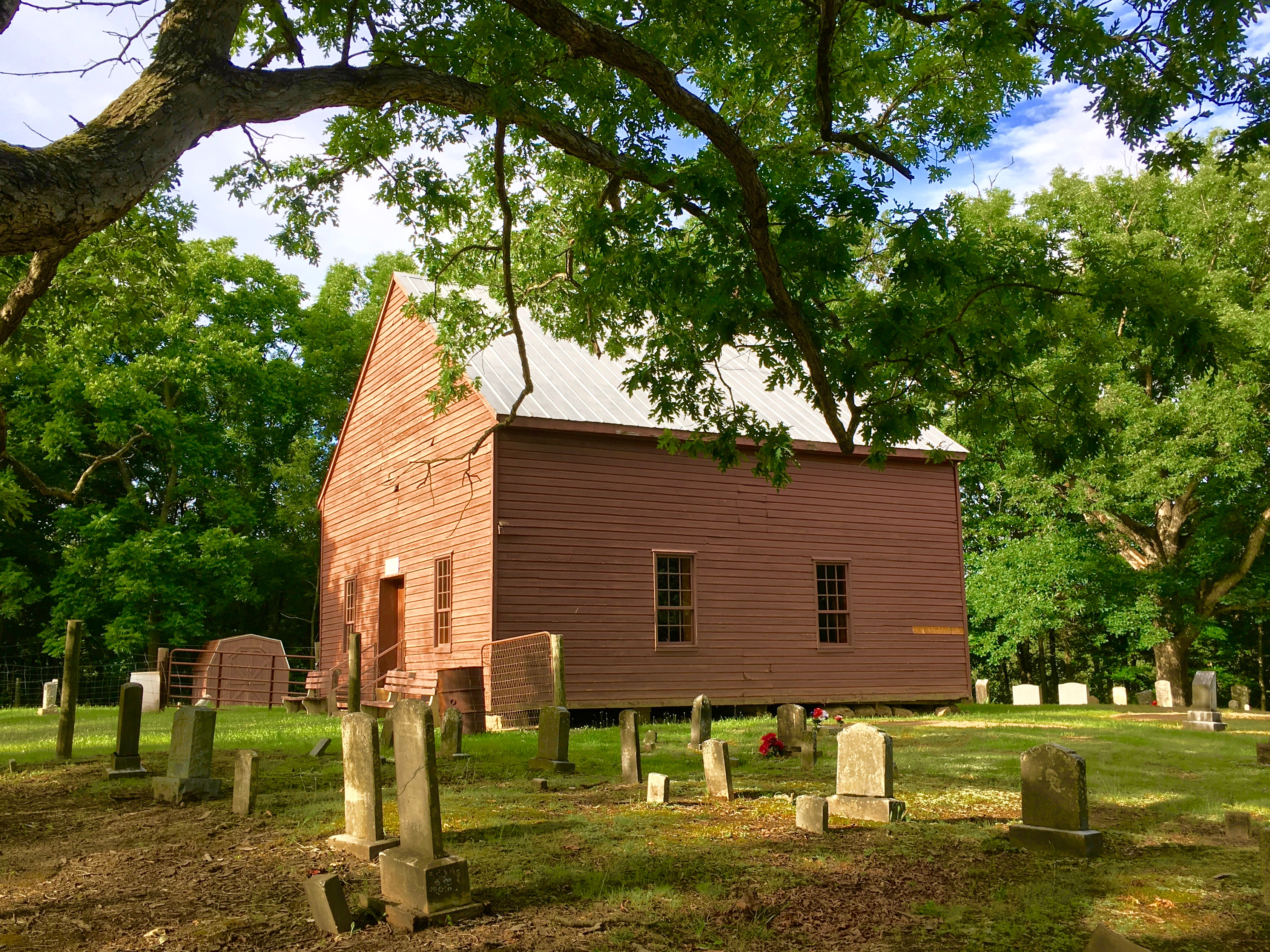 Old Pine Church is a mid-19th-century church along Old Pine Church Road (County Route 220/15), south of Purgitsville, West Virginia, United States. Photographed by Justin A. Wilcox of Washington, D.C. on July 2, 2016.